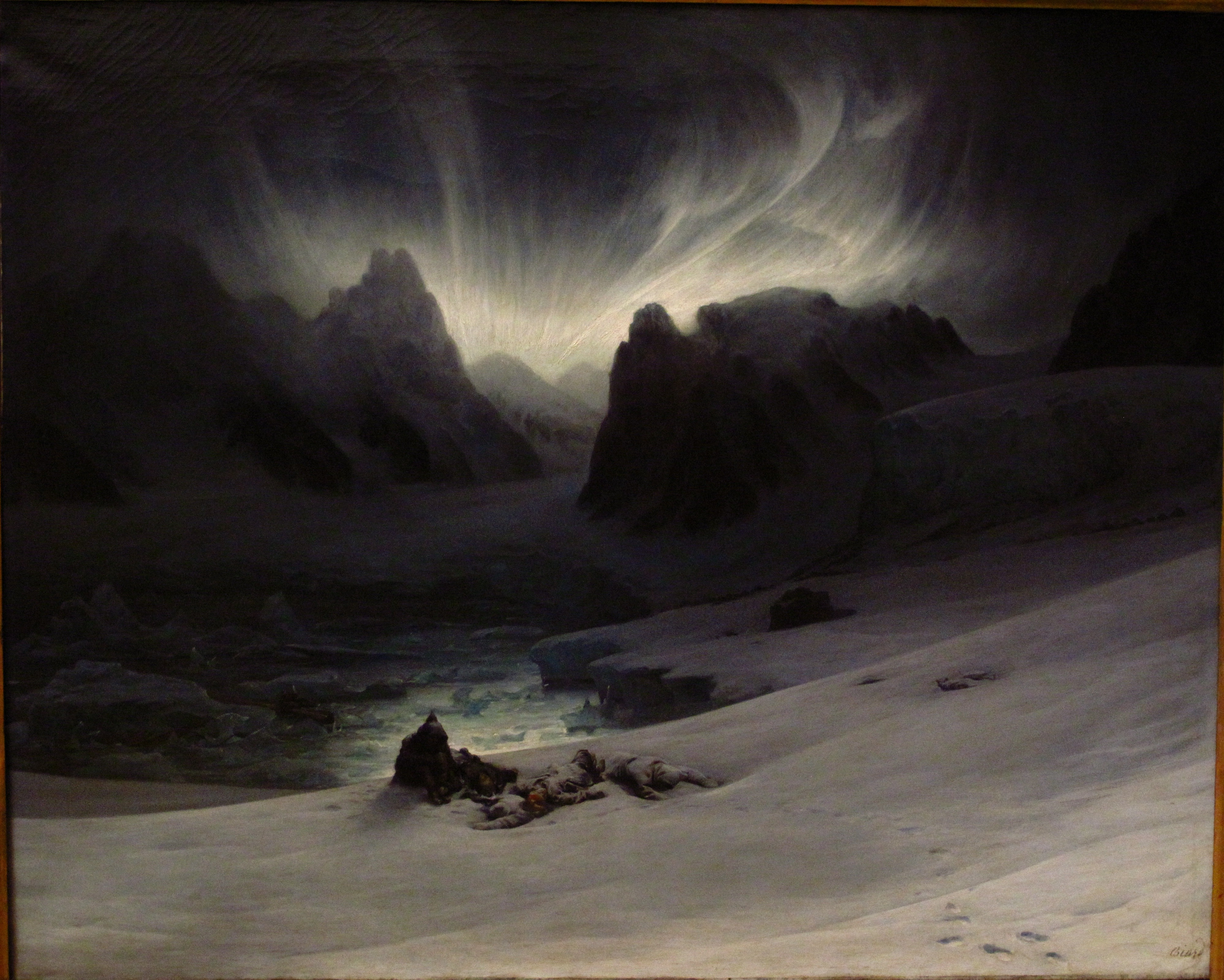 Magdalenefjorden, view from a peninsula in northern Spitsbergen.